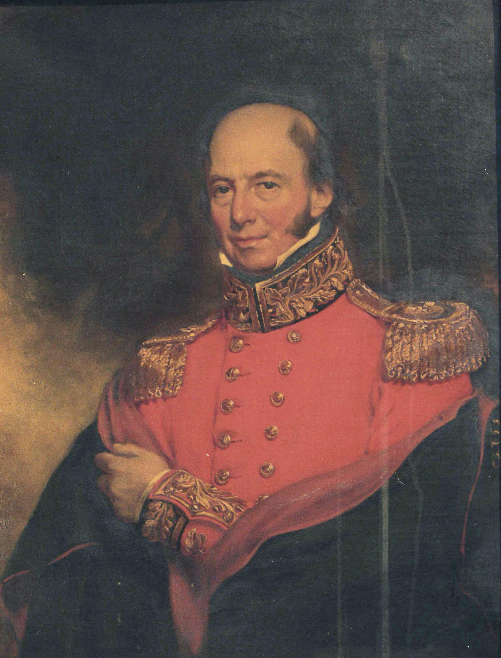 Oil painting of General William Loftus (1751 - 1831) by Samuel Lane RA